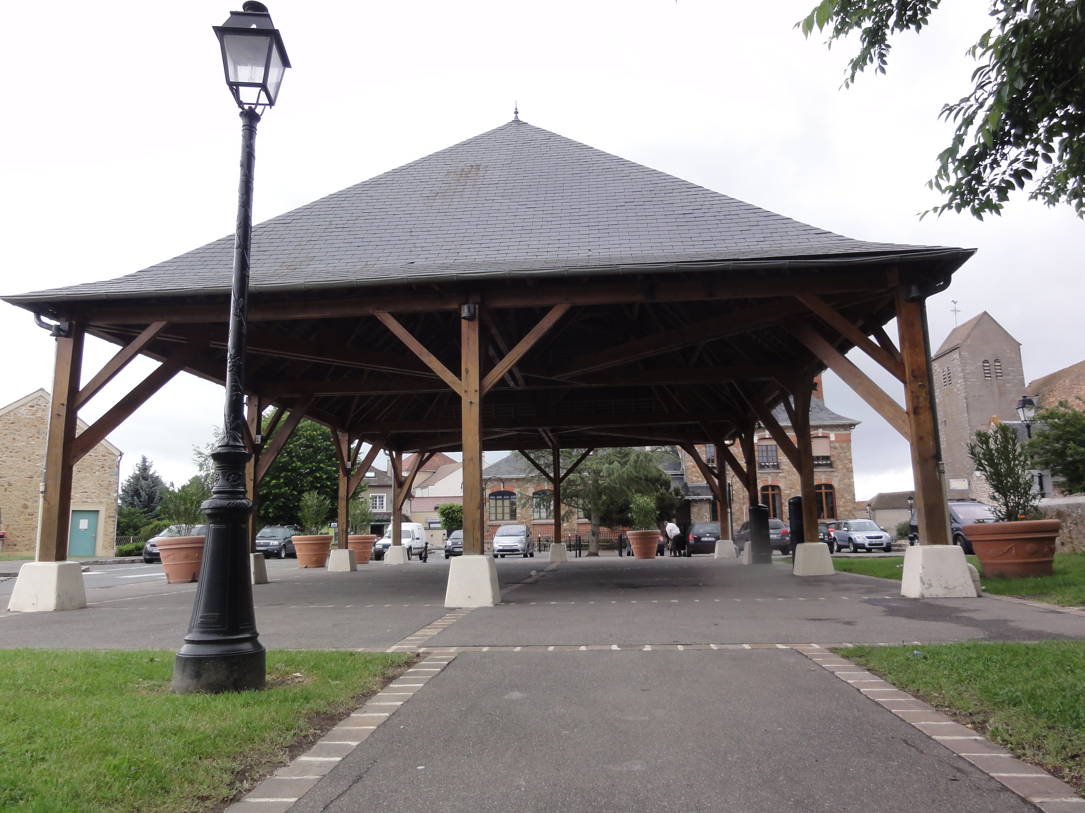 Nozay (Essonne) Halles couvertes